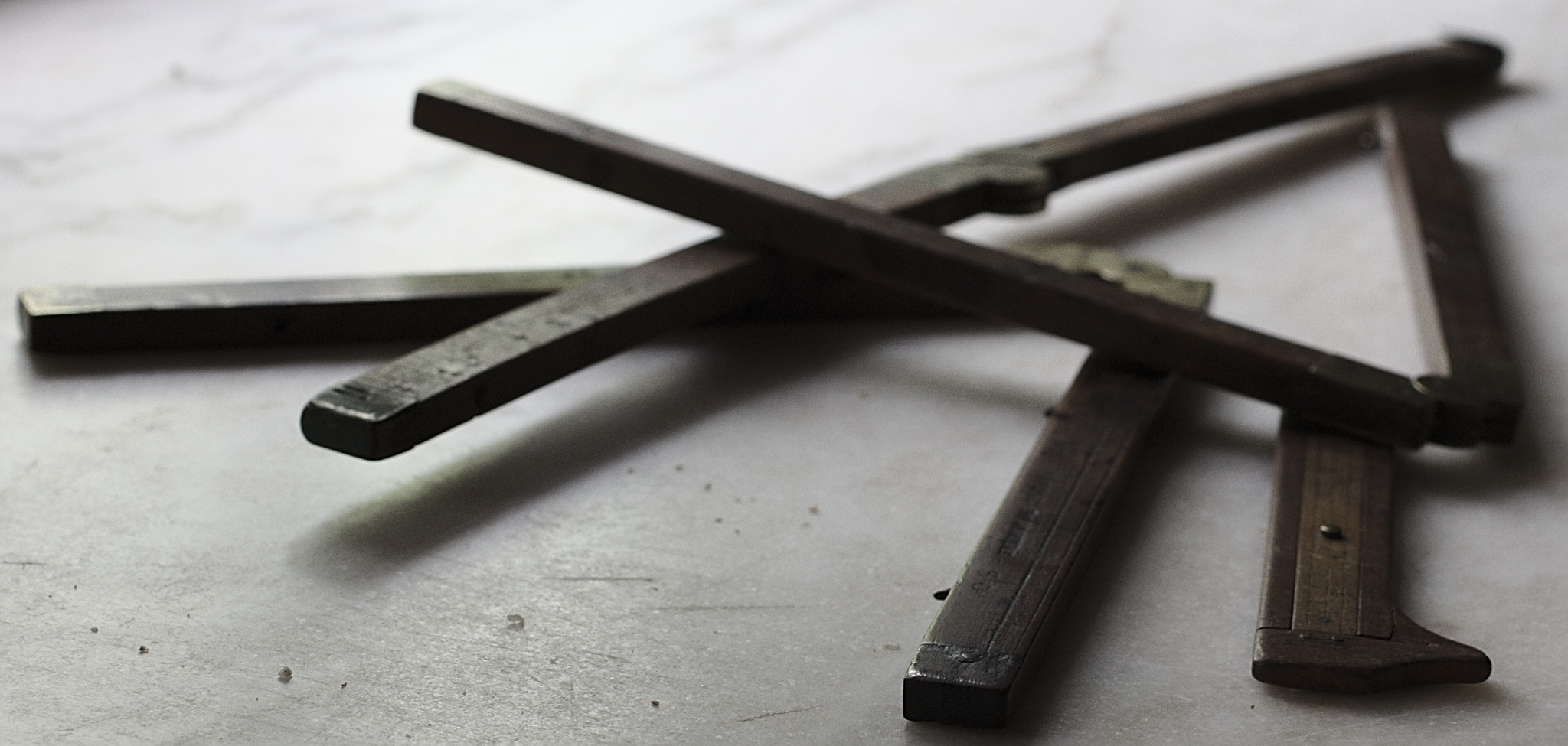 Pied de roi (foot of the king) was a French measuring unit. The measuring devices on this picture (3 pied de roi and something else) were made in the 18th century. The pieds de roi measuring device can be folded in the middle.